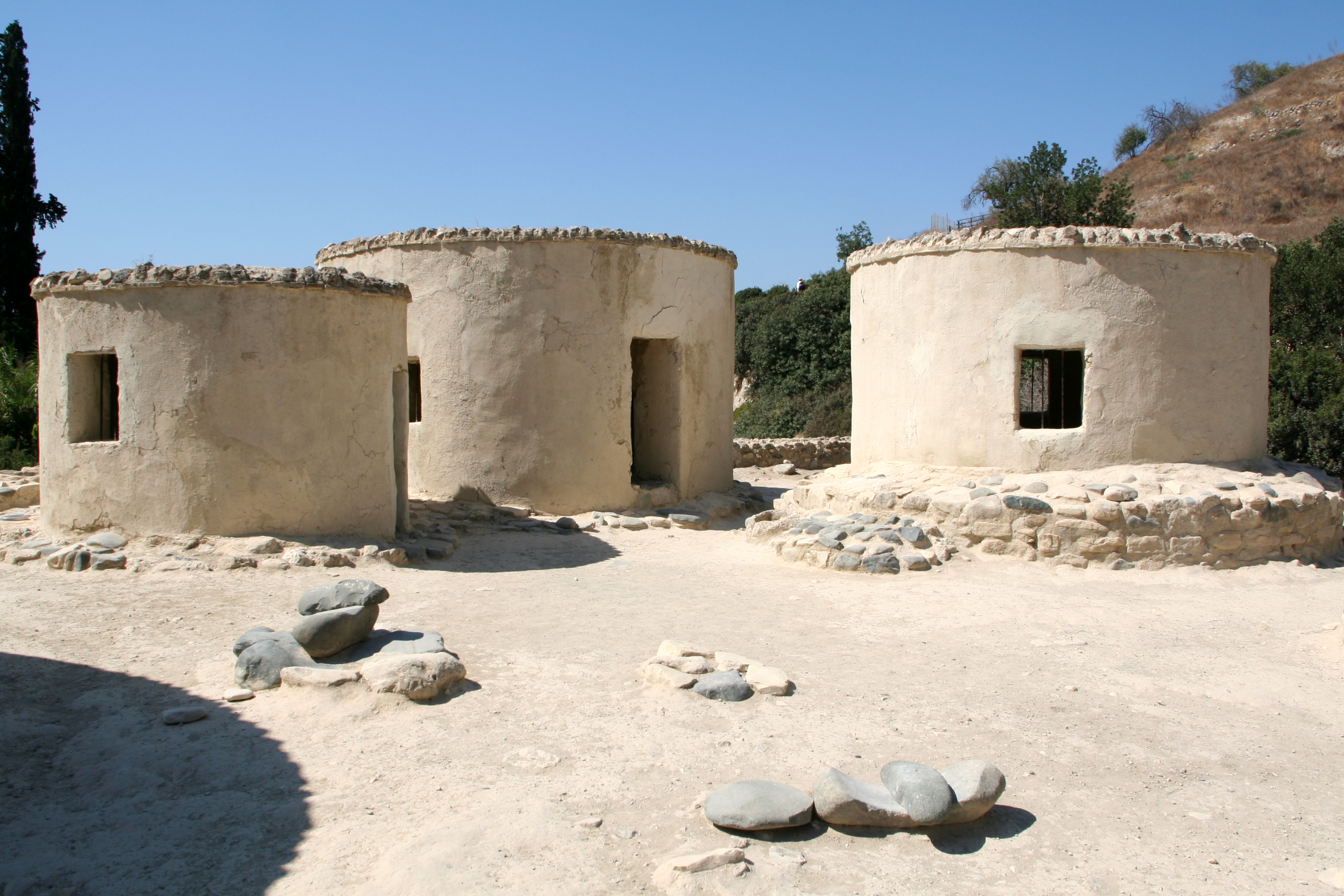 Reconstructed circular structures Khirokitia, between 7000 and 5800 BC